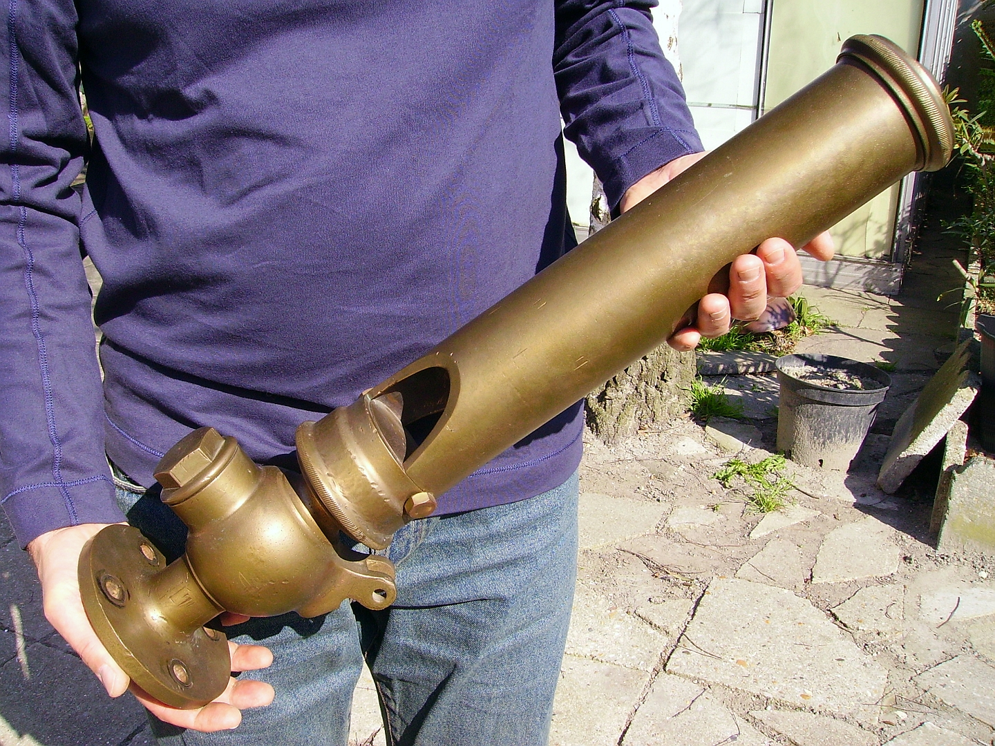 Former steamboat whistle.